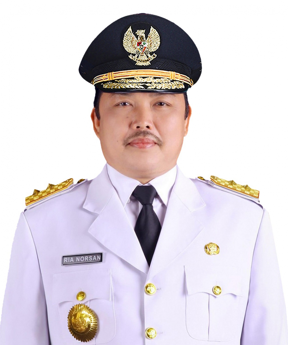 Ria Norsan as Vice Governor West Kalimantan